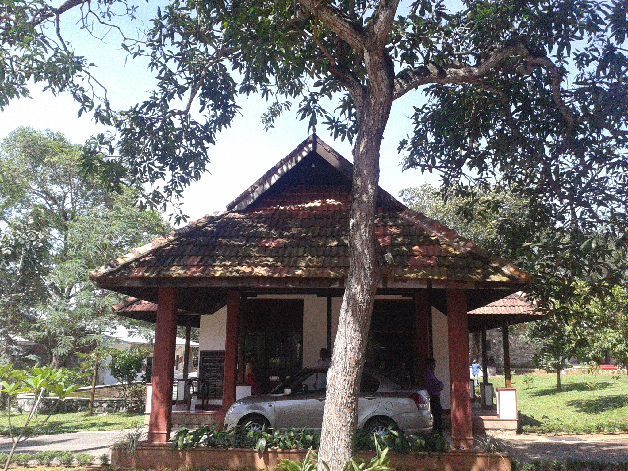 The Kerala State Institute of Design (KSID), Kollam campus